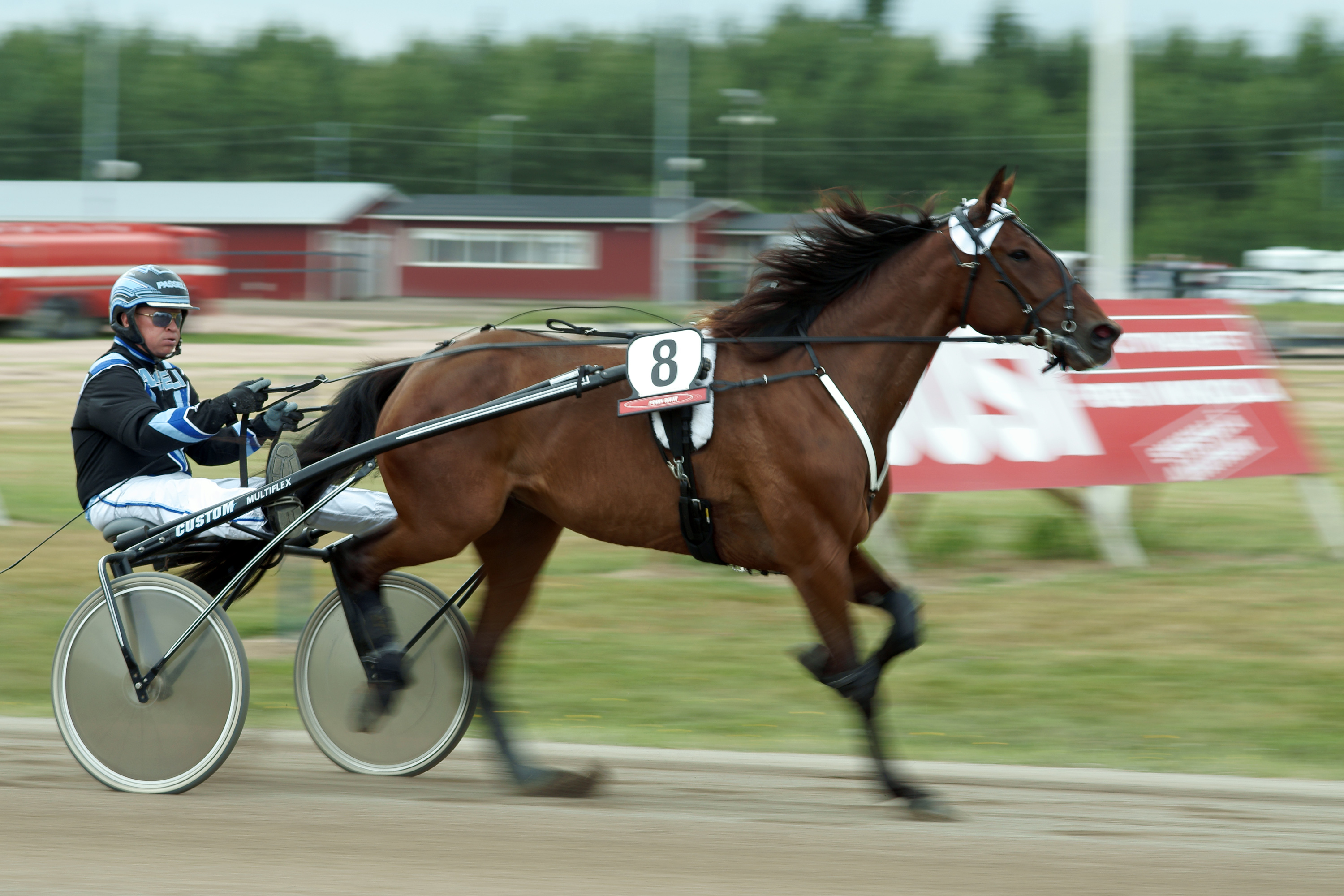 Juha Utala harnessing Kiikkus's Lordi in Pori harness racing track.